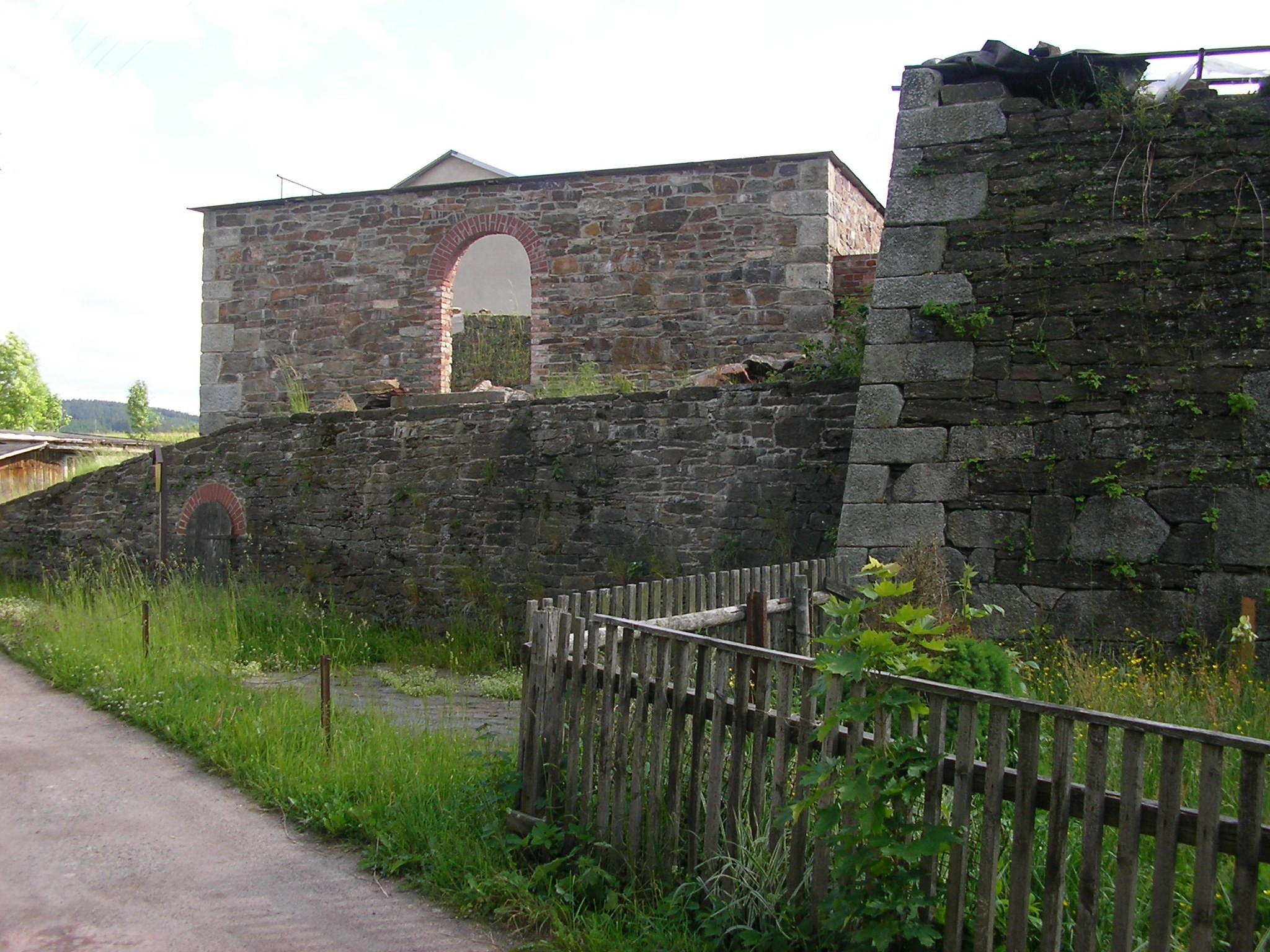 Winding house of Wolfgang Maaßen mine, under reconstruction. Schneeberg, Saxony, Ore Mountains, Germany.